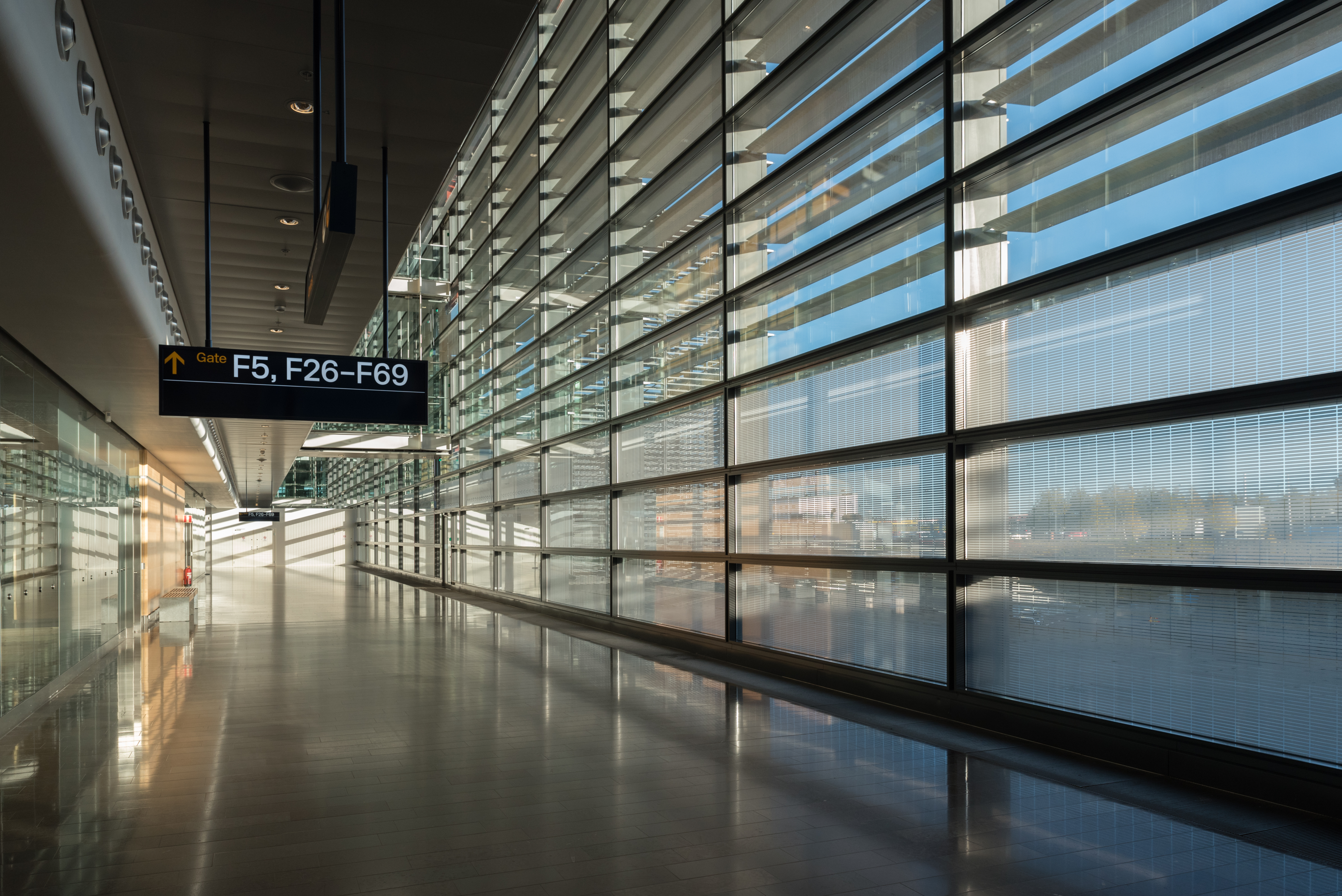 interior of Arlanda Airport